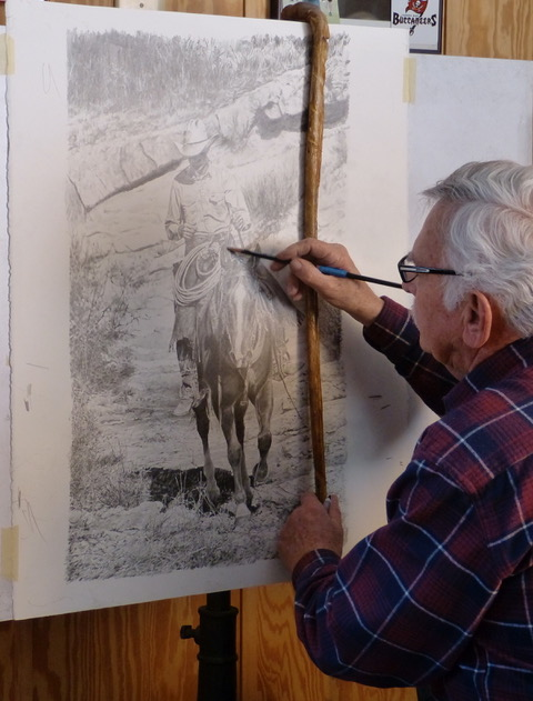 Robert "Shoofly" Shufelt working in his studio in 2015.